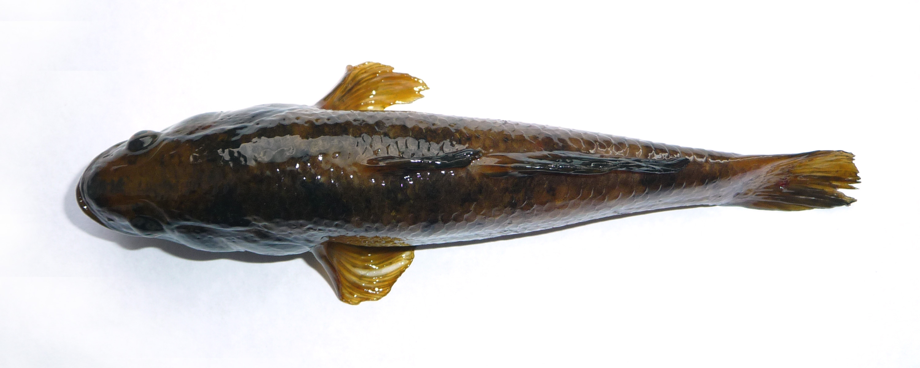 Chinese sleeper, Amur sleeper (Perccottus glenii) - freshwater fish of Odontobutidae family. Found in wild in Ukraine, near Vinnitsa (Vinnytsia) in 2009.